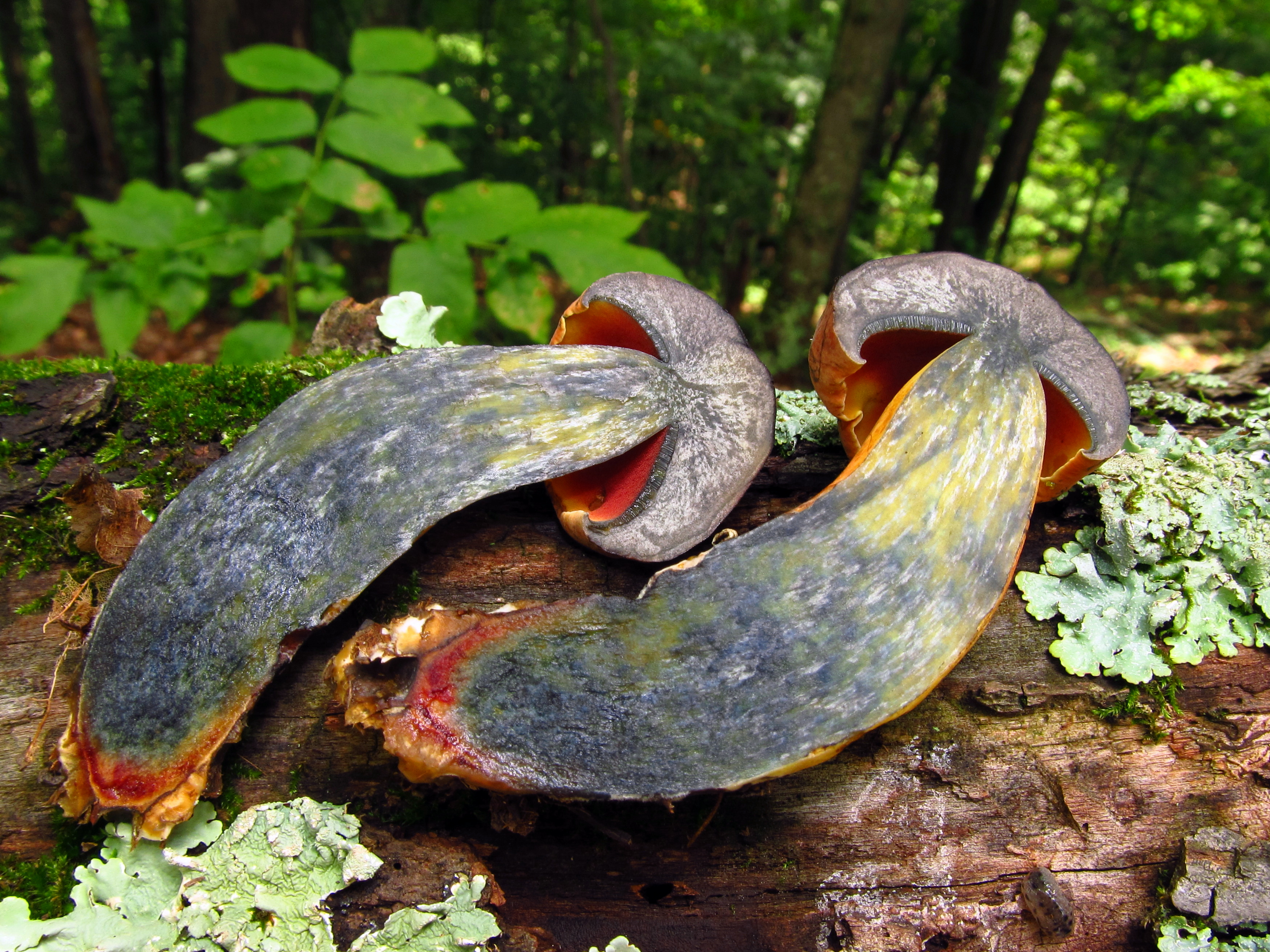 Bisected fruit bodies of the bolete fungus Boletus subluridellus A.H.Sm. & Theirs. Specimen collected and photographed in Liars Ridge Trail, Athens Conservancy, Athens Co., Ohio, USA.